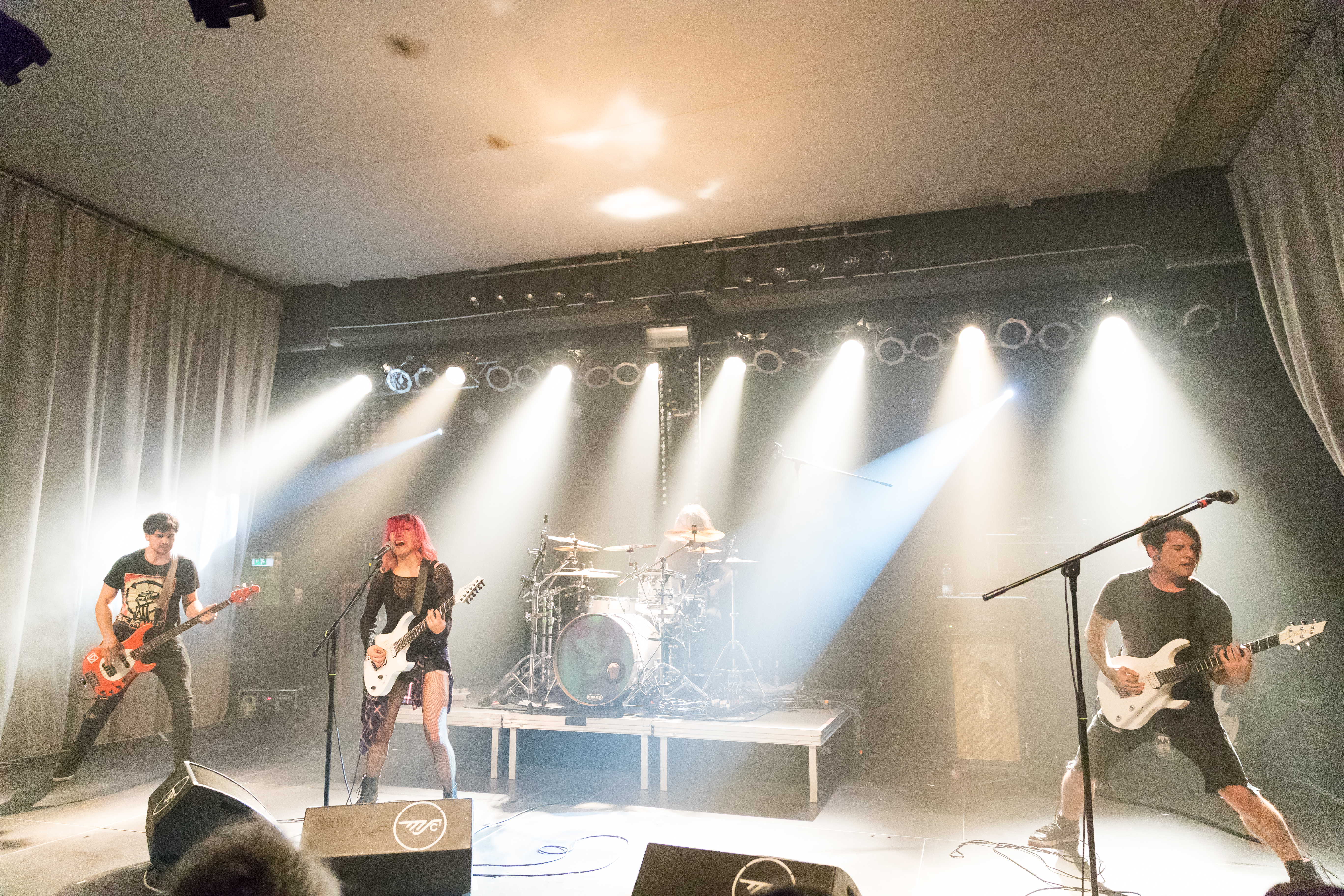 Eyes Set To Kill during Butcher Babies (Support: Klogr & Eyes Set To Kill) at MS Connexion Complex, Mannheim, Baden-Württemberg, Germany on 2018-03-15, Photo: Sven Mandel